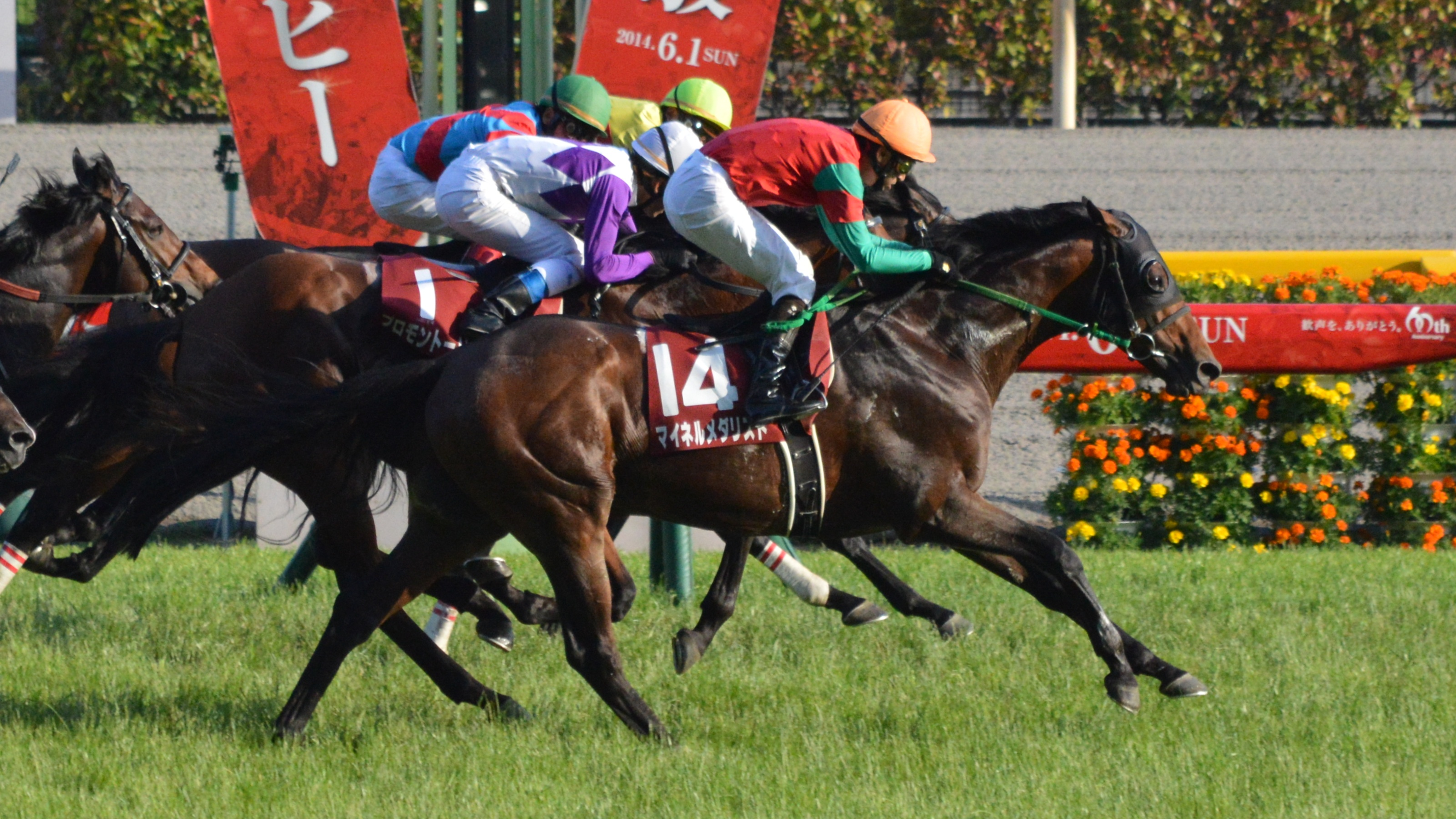 Japanese race horse Meiner Medalist at Tokyo racecourse. Tokyo (JPN) 1 Jun 2014 Meguro Kinen (Grade 2 Handicap) (Turf) (4yo+) 1m41/2f Firm RankHorse NameOddsAgeWgtJockeyTrainer1stMeiner Medalist (JPN)152/10H654Masayoshi EbinaKiyotaka Tanaka2ndLove is Boo Shet (JPN)314/10H556Yoshihiro FurukawaAkira Murayama3rdPromontorio (JPN)10/1C454Kosei MiuraKiyoshi Hagiwara4th - 16th/omission